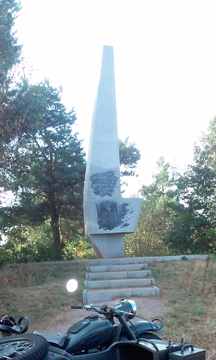 Ofiarom hitlerowskiego terroru pomordowanym w latach 1939-1945 w Kielcach